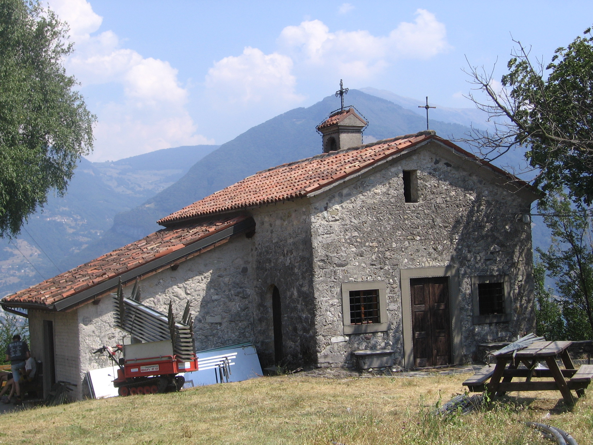 Castro, Bergamo, Italy